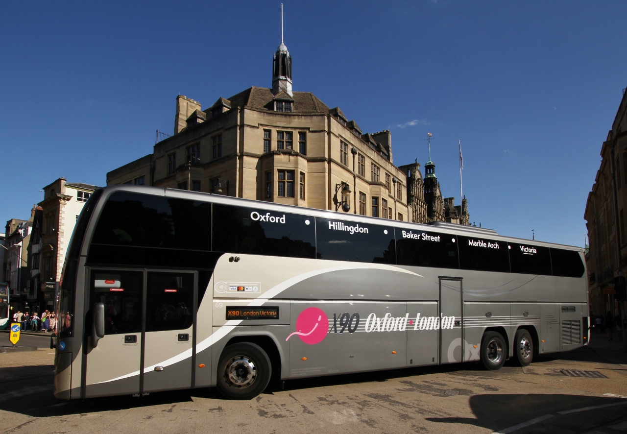 An Oxford Bus Company coach on route X90 at Carfax, Oxford. The coach is a Volvo B11R with a Plaxton Elite body, registration mark X90 PLS, fleet number 69.